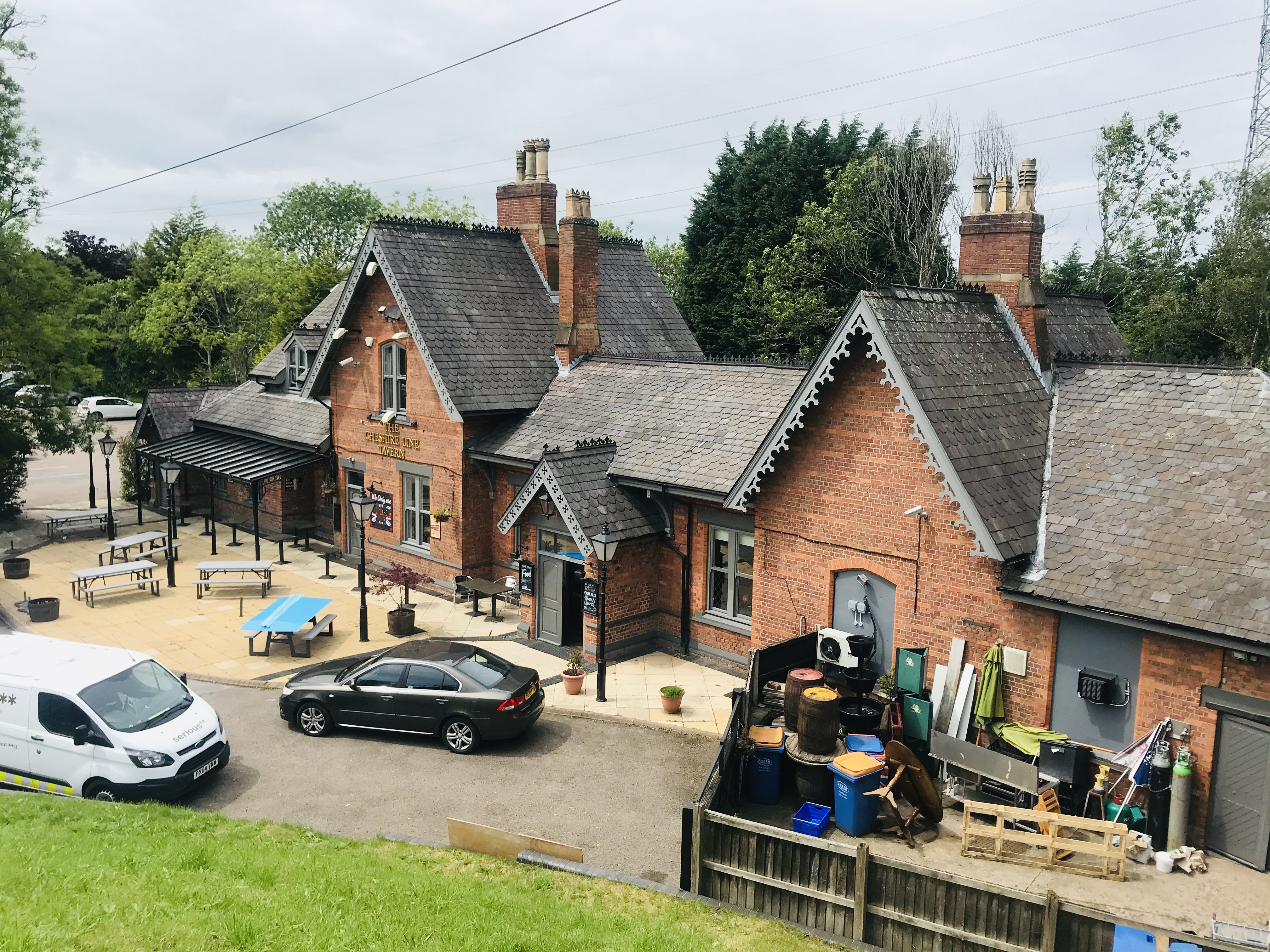 Cheshire Line Tavern, a pub in the former Cheadle North station